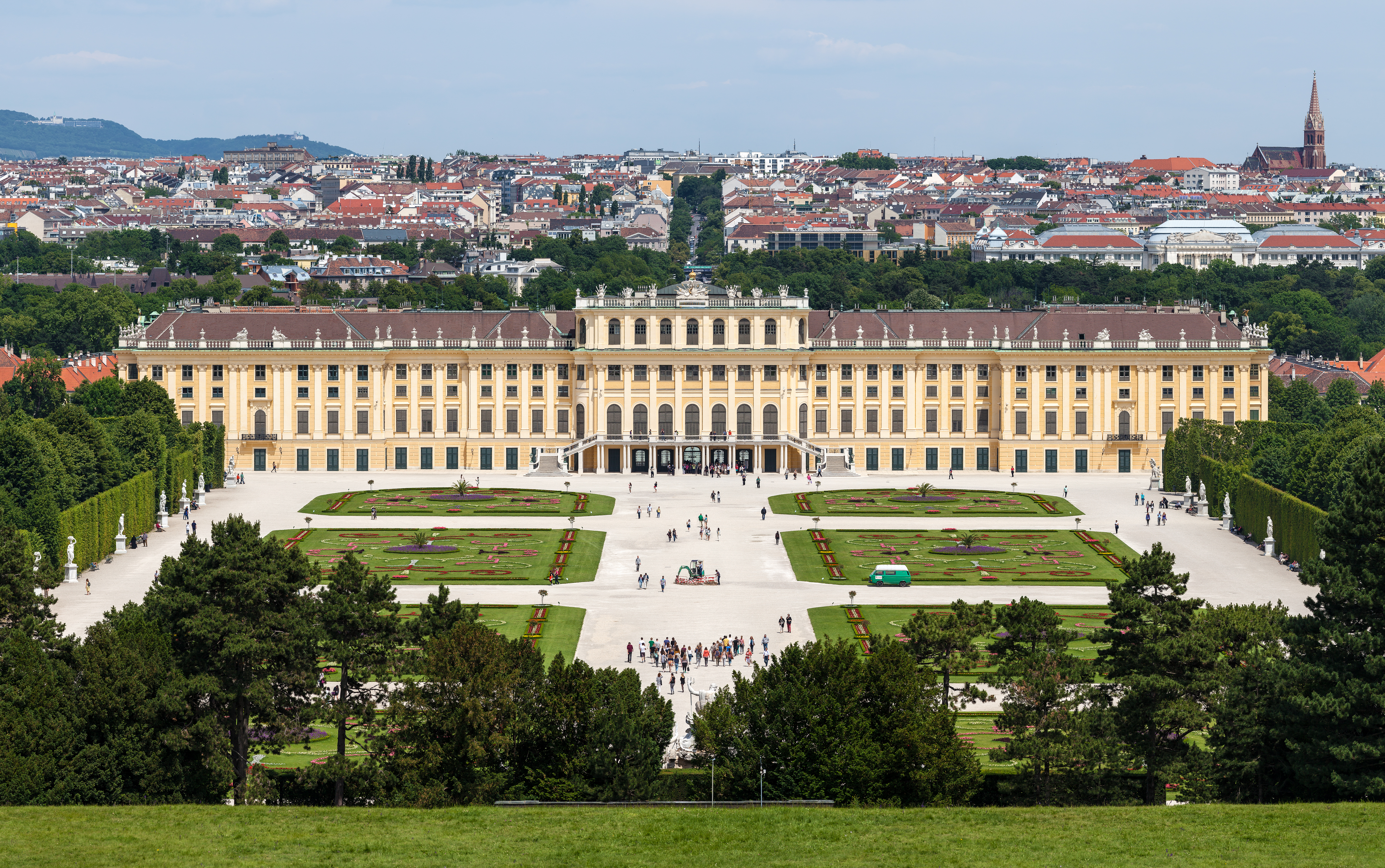 Schönbrunn Palace in Vienna, Austria